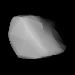 3D convex shape model of 1781 Van Biesbroeck, computed using light curve inversion techniques. J. Hanuš, J. Ďurech, M. Brož, B. D. Warner (June 2011). "A study of asteroid pole-latitude distribution based on an extended set of shape models derived by the lightcurve inversion method". Astronomy and Astrophysics 530: A134. ISSN 0004-6361. arXiv